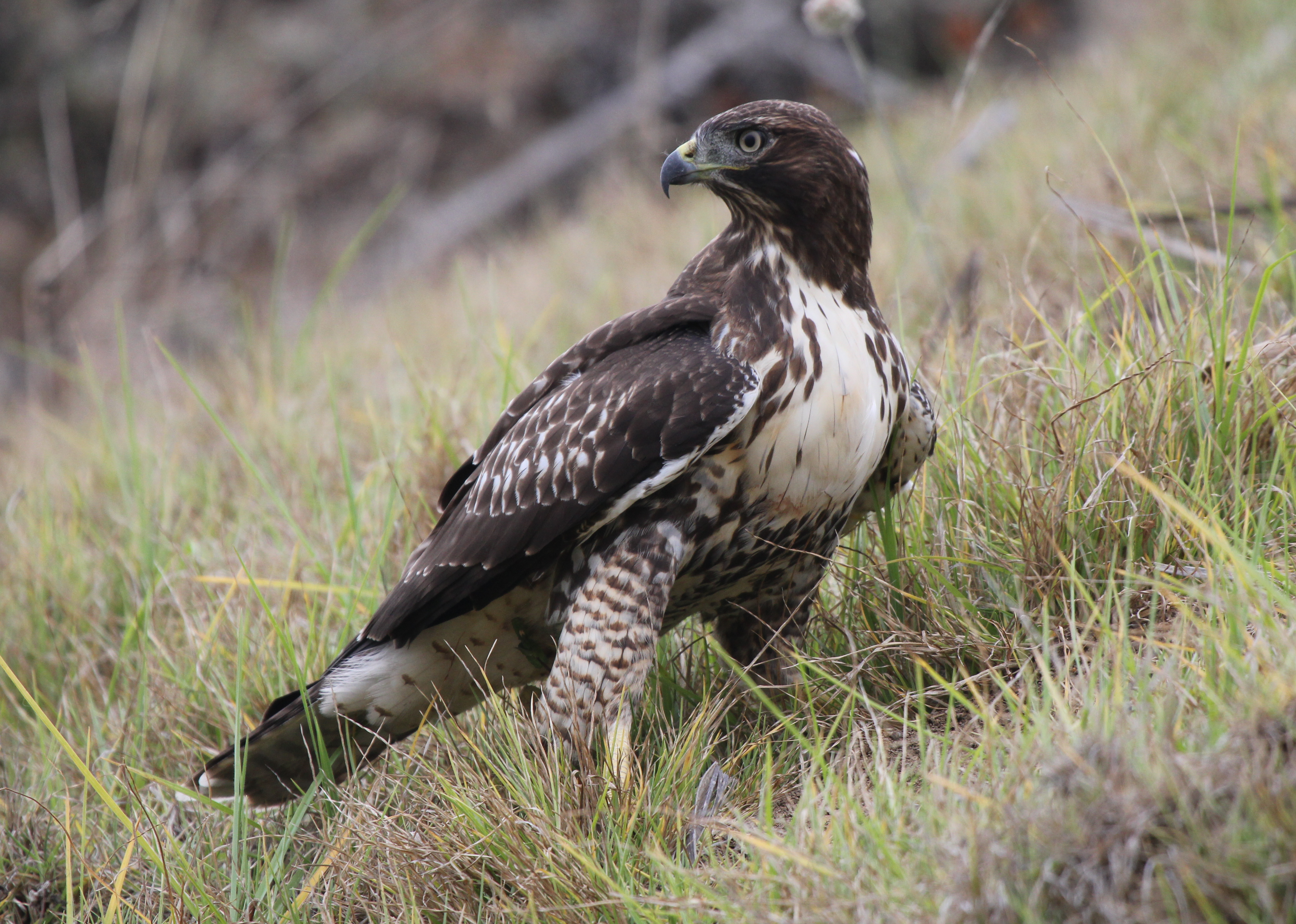 An immature Red-tailed Hawk at Pillar Point Harbor, California, USA.